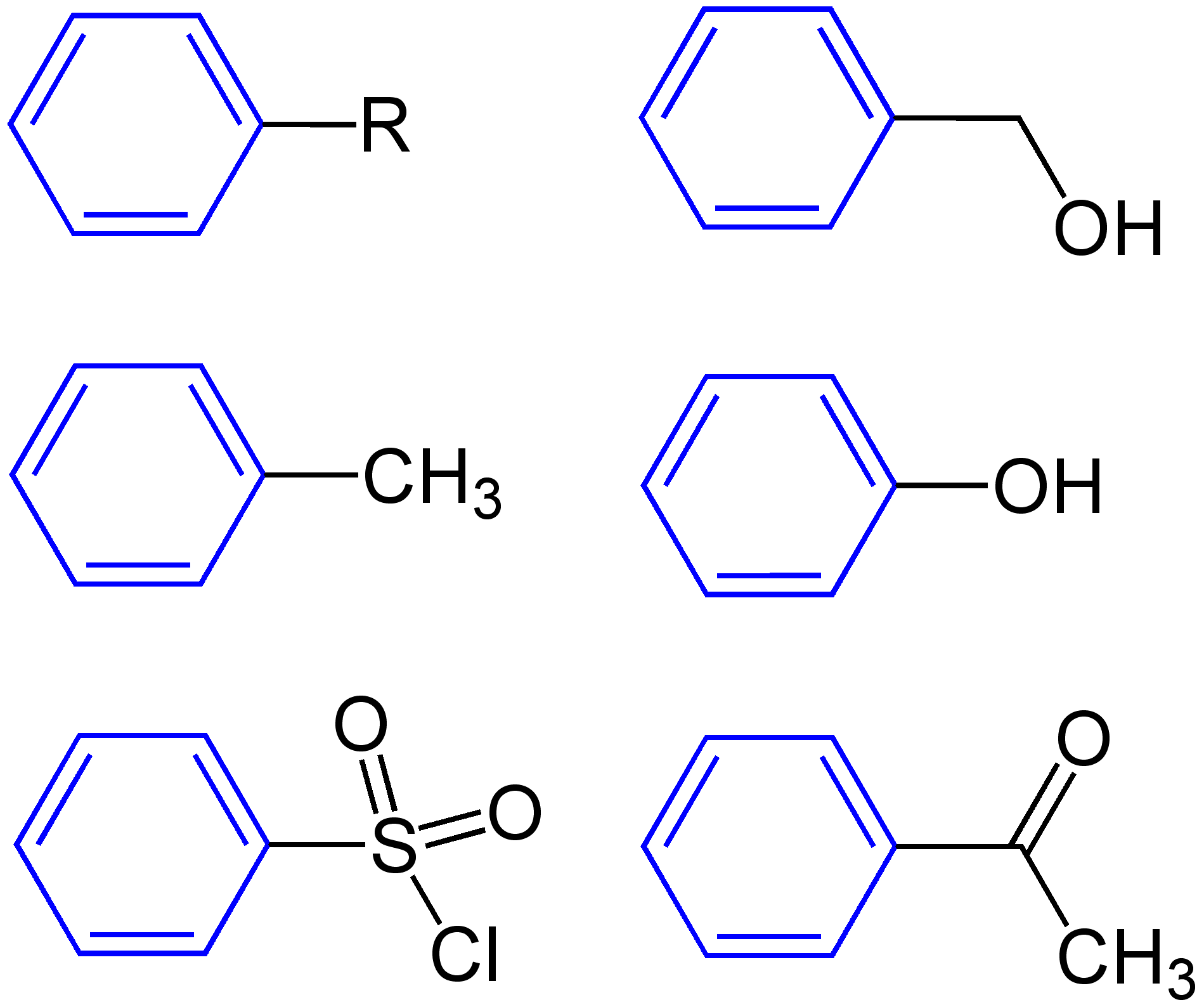 Phenyl_Group_General_Formulae